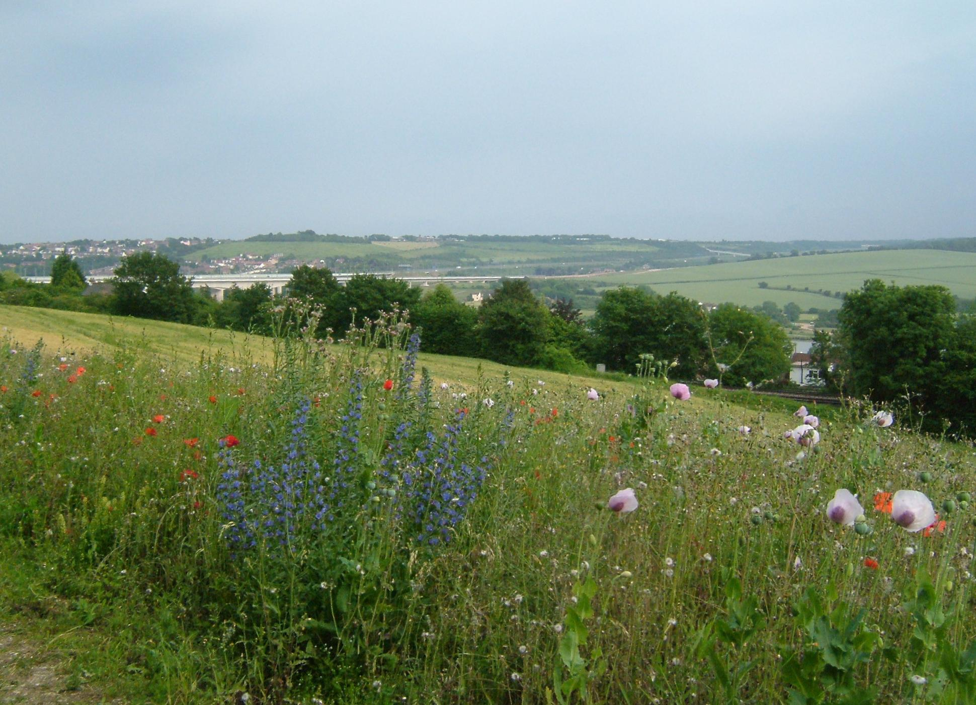 This is one of the fields in Ranscombe Farm, Cuxton, Kent, where the River Medway cuts through the North Downs. The soil varies from pure chalk, to the covering Wealden Clays, producing a habitat that has been visited by plant collectors since 1699. In the distance is the Medway Viaduct, and the rails of the Chatham Main Line can be seen at the field edge. The village is Cuxton. Opium poppy (Papaver somniferum) in the foreground.